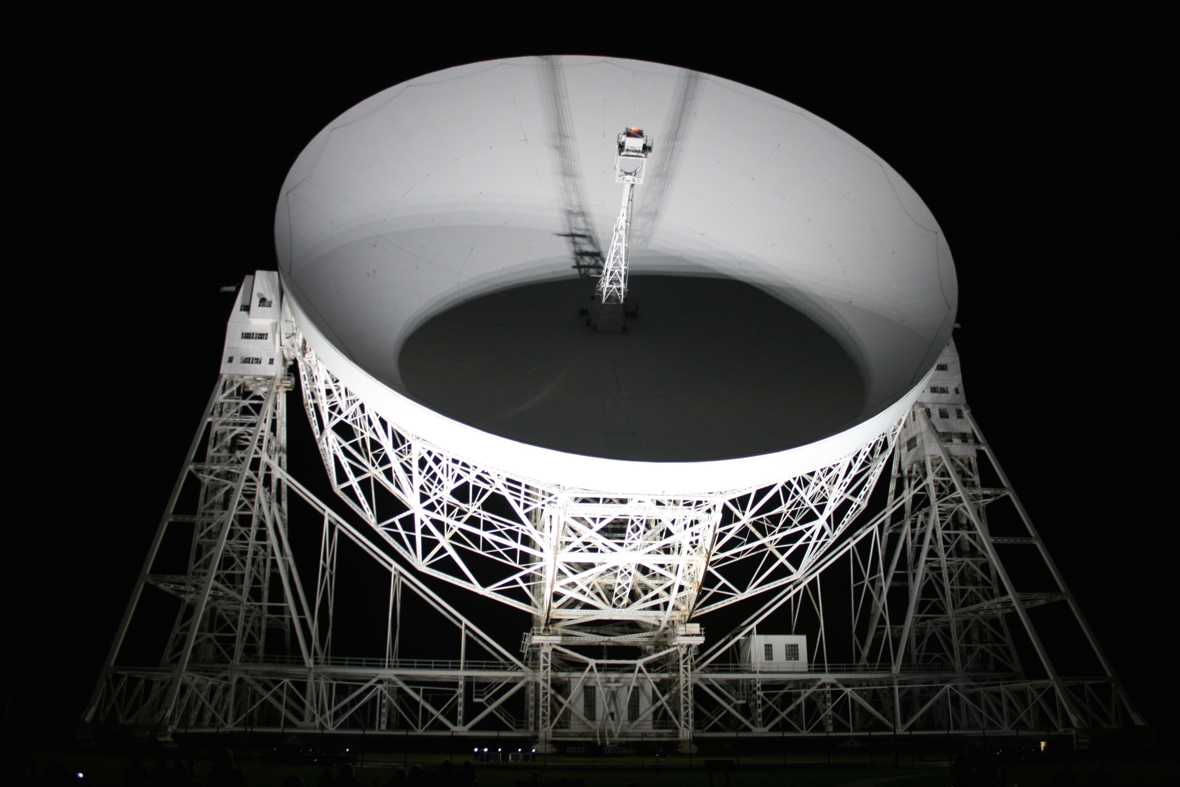 First Light celebrations at Jodrell Bank Observatory.